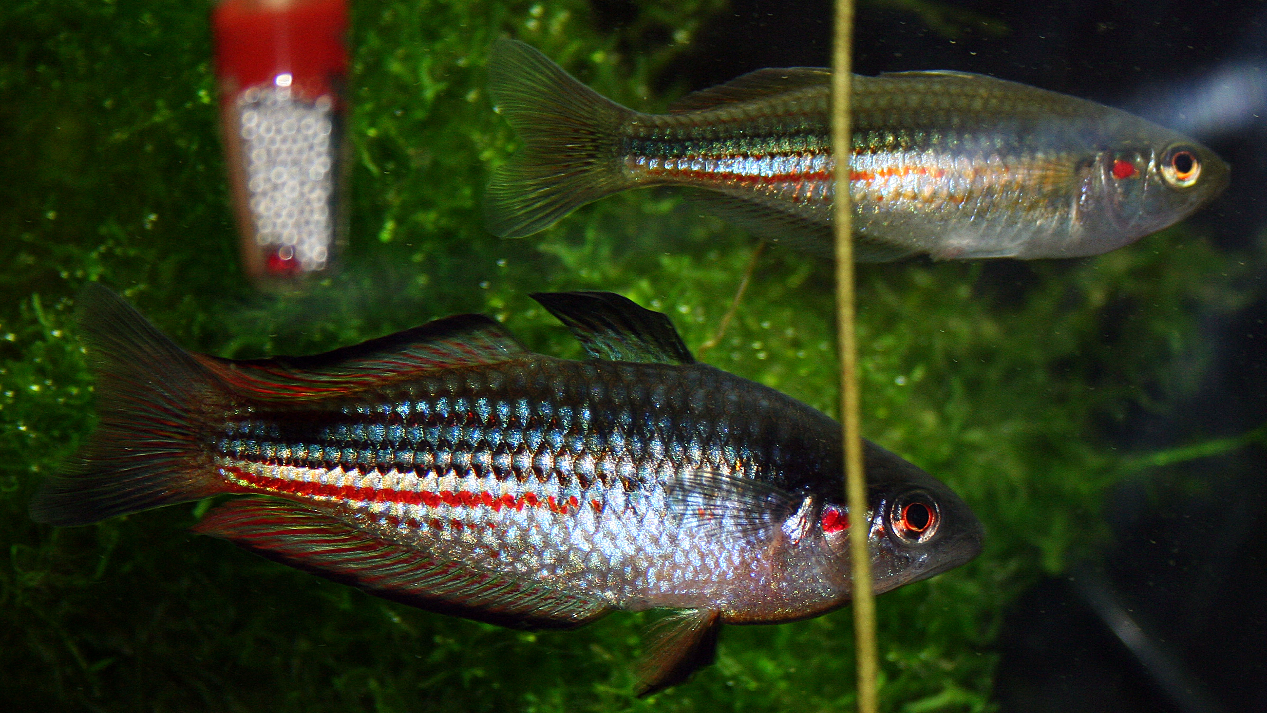 Author: Eileen Kortright (Roan Art) Subject: Melanotaenia duboulayi, Kangaroo Creek, male and female